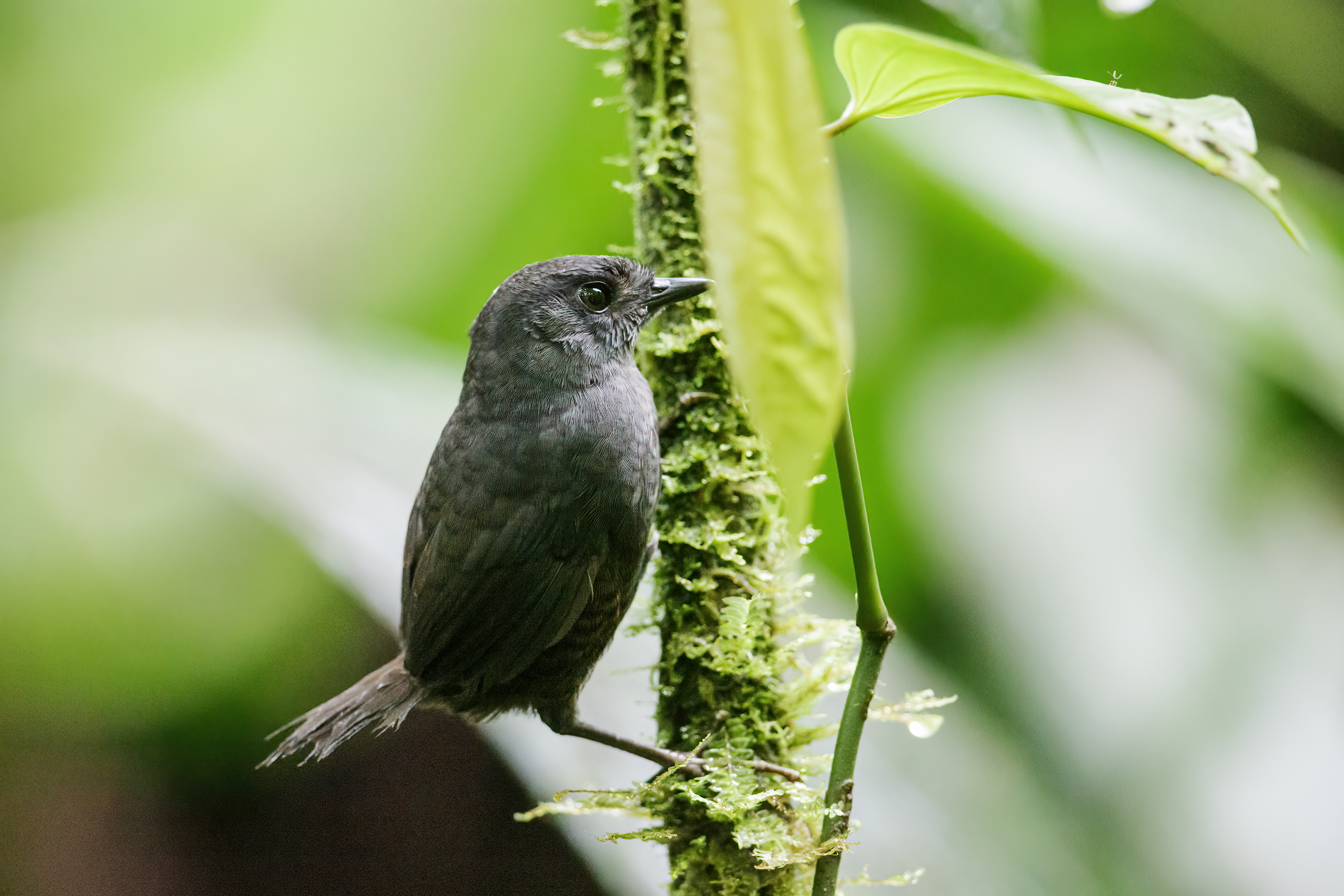 Choco Tapaculo from La Unión, Esmeraldas, Ecuador